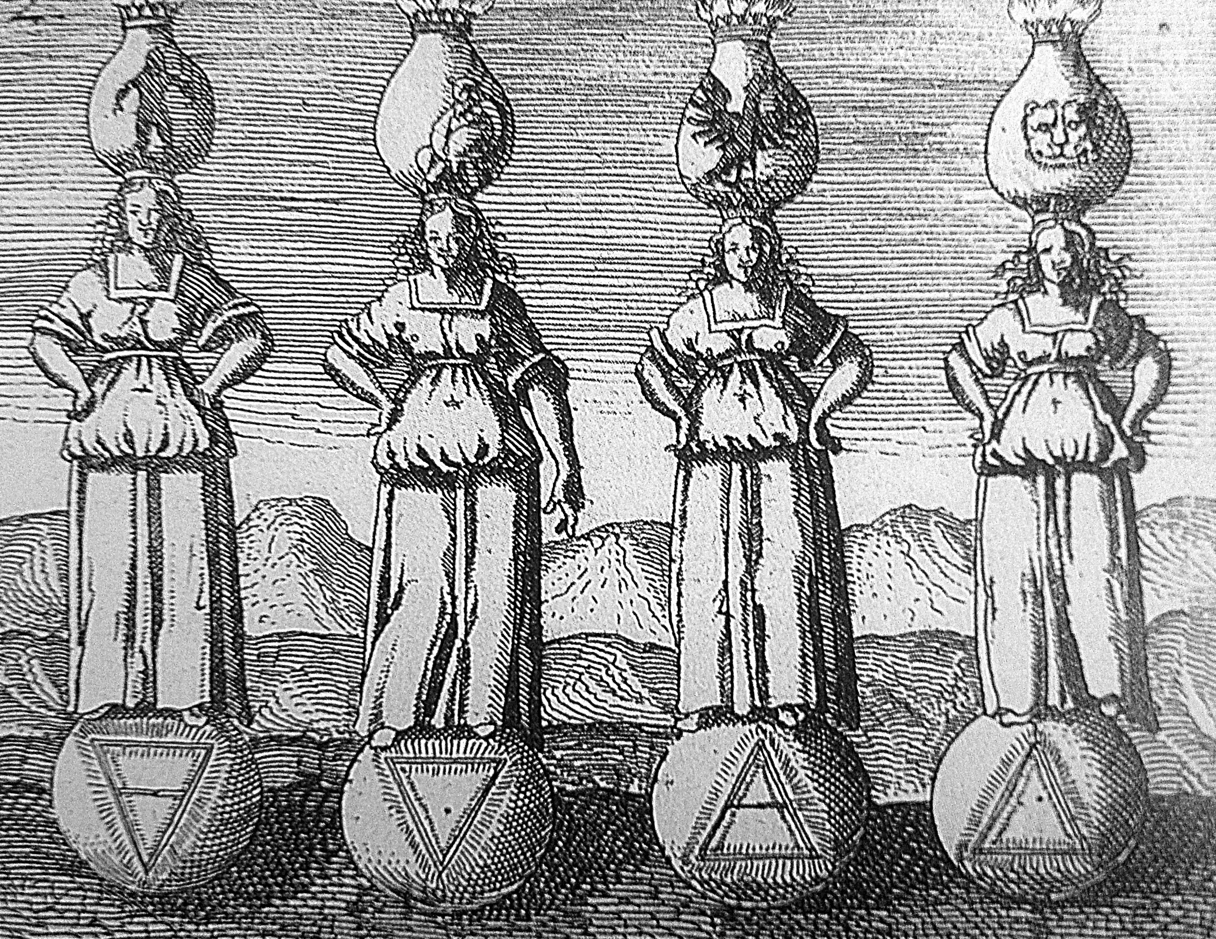 Excerpt from the book D. Stolcius von Stolcenberg, 1624, Viridarium chymicum, Frankfurt am Main. It shows the 4 elements: from left to right, earth, water, air and fire